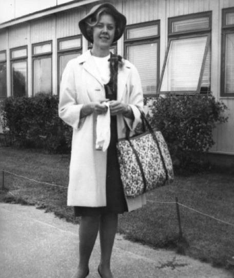 Photograph of the Finnish music educator Inkeri Simola-Isaksson (1934–2012).